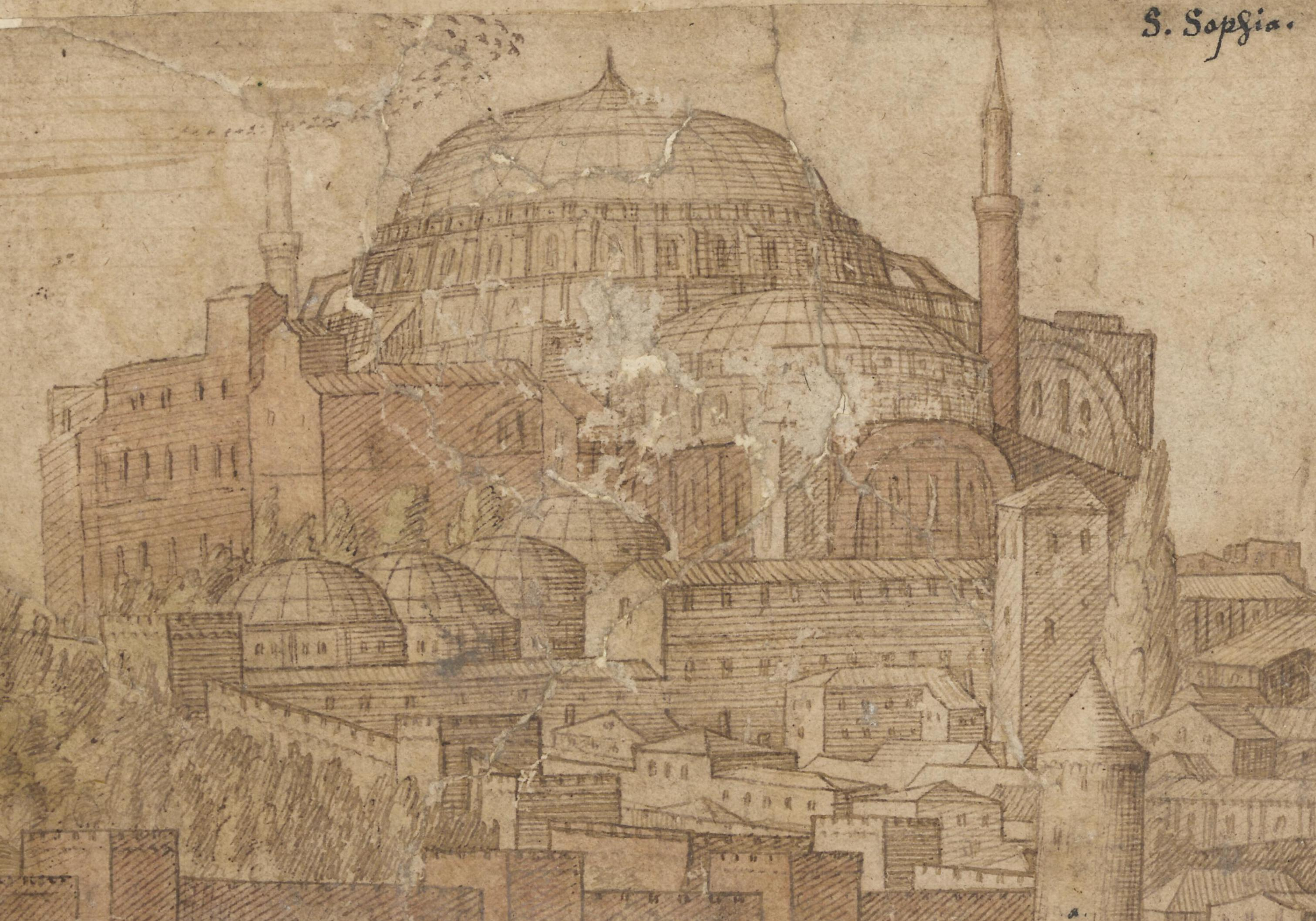 Prospect of Constantinople, Sheet 6, Melchior Lorck, 1559